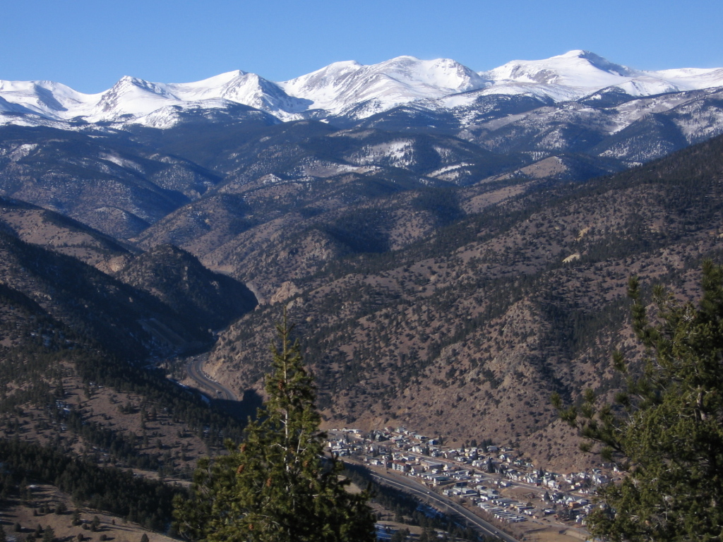 Overlooking Idaho Springs, Colorado, with the continental divide in the background, including Mt. Flora and Mt. Eva on the left and James Peak on the right.